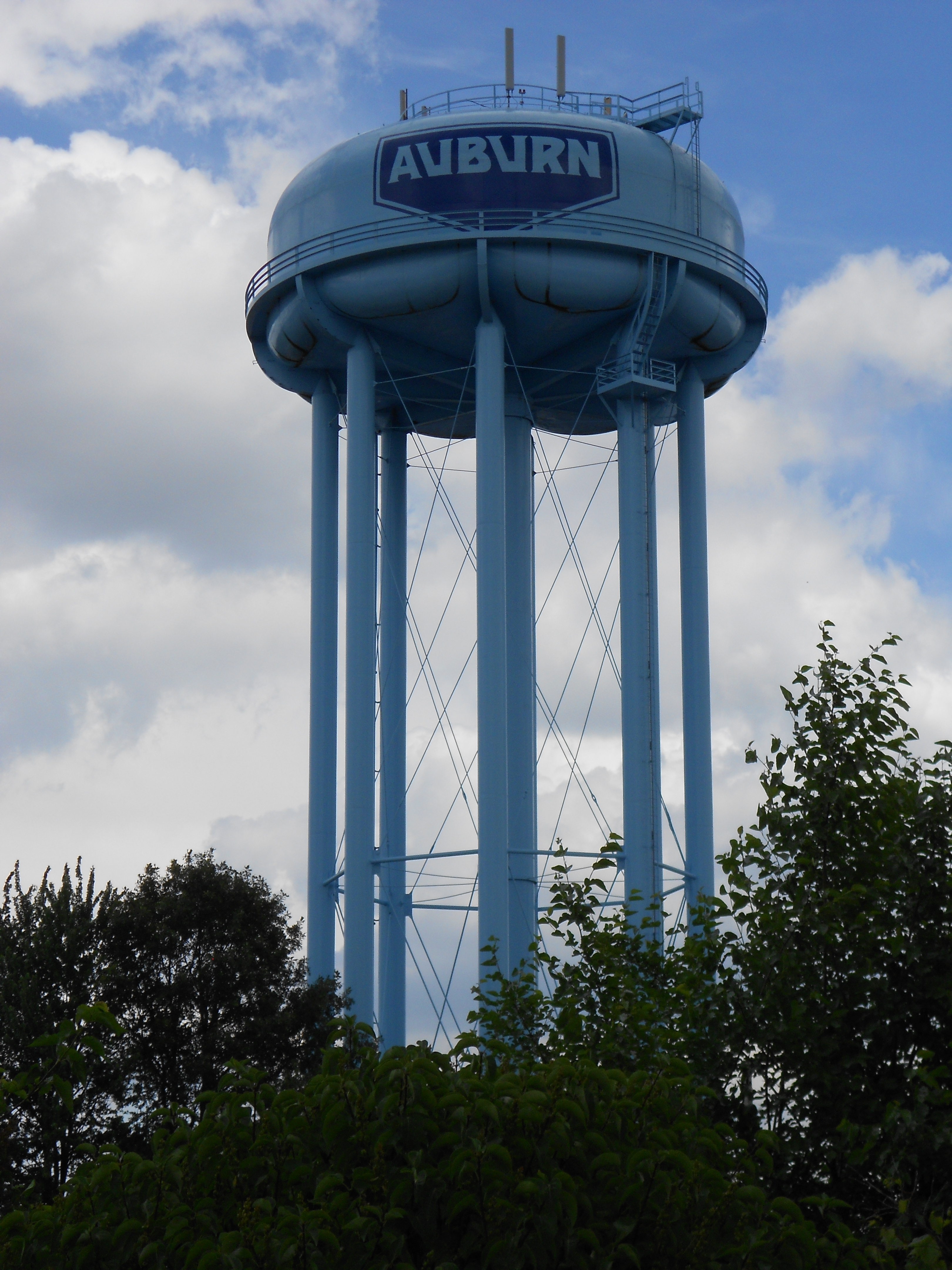 This is an image of the Fulton Street water tower in Auburn, Indiana, USA, erected in 1946.